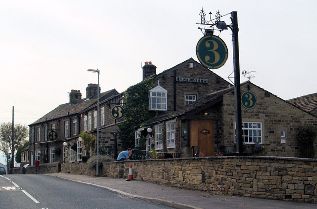 The 3 acres public house and restaurant A reasonably expensive restaurant.